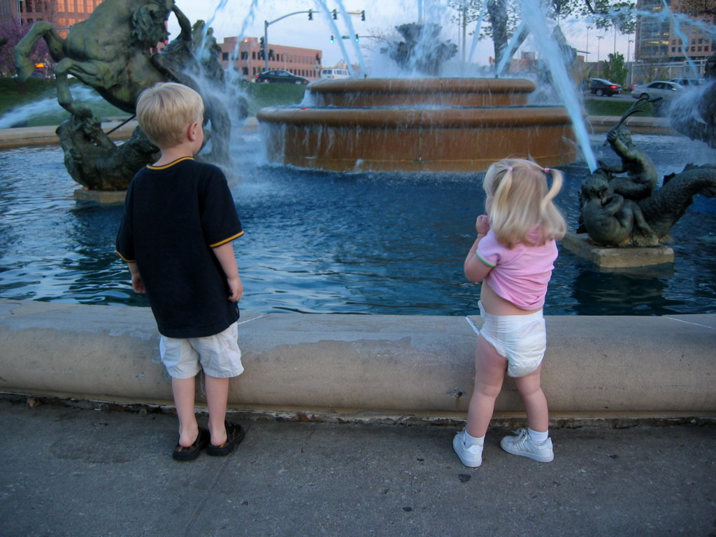 Fountain in Kansas City, U.S.A.